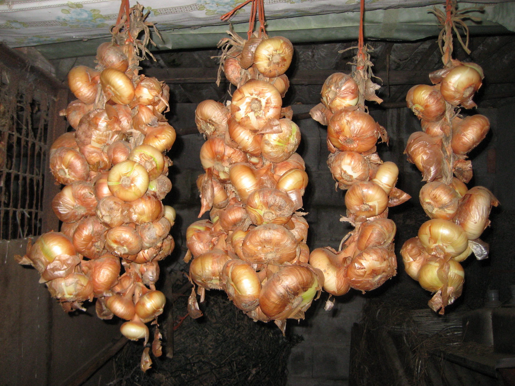 Cebolas. Galicia (Spain)